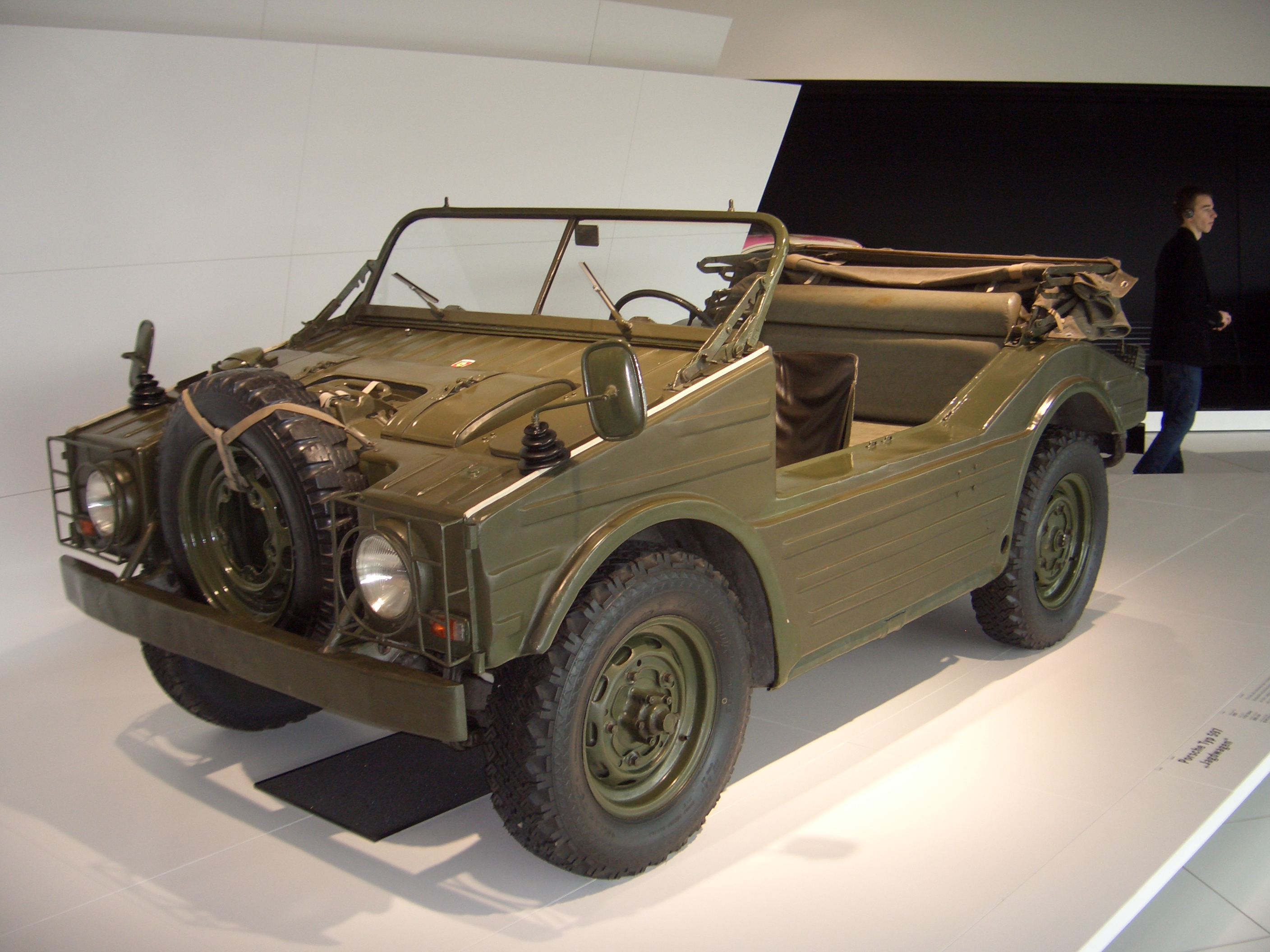 see filename for despcription - seen at Porsche Museum Native namePorsche-MuseumLocationStuttgartCoordinates48° 50′ 07″ N, 9° 09′ 06″ E Established1976 (old museum) 2009 (new museum)Web page control : Q328623 VIAF: 138511768 GND: 2087859-X SUDOC: 155641123 NKC: ko2015876799 institution QS:P195,Q328623